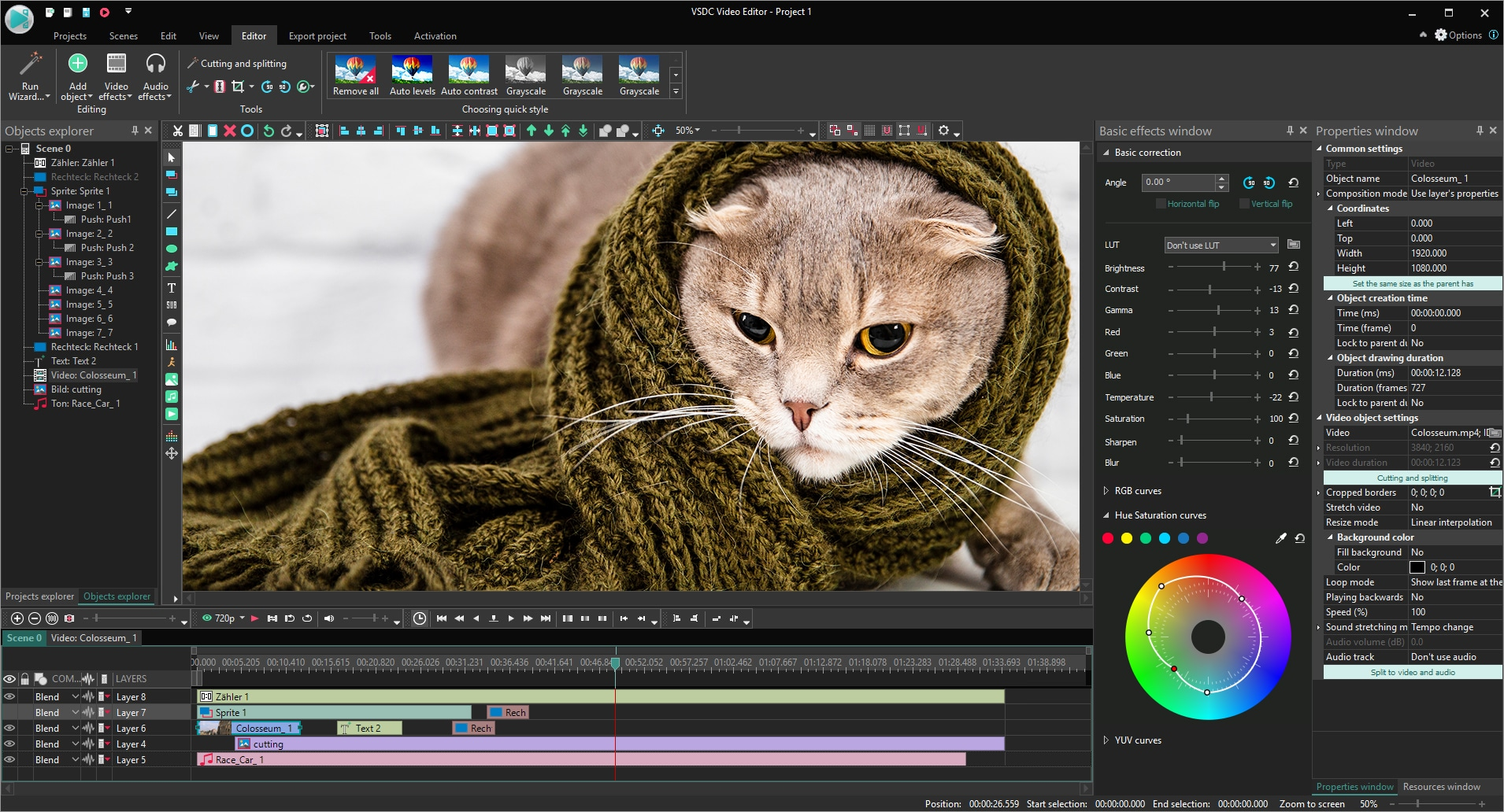 VSDC allows you to apply professional-level color correction using Hue & Saturation color wheel